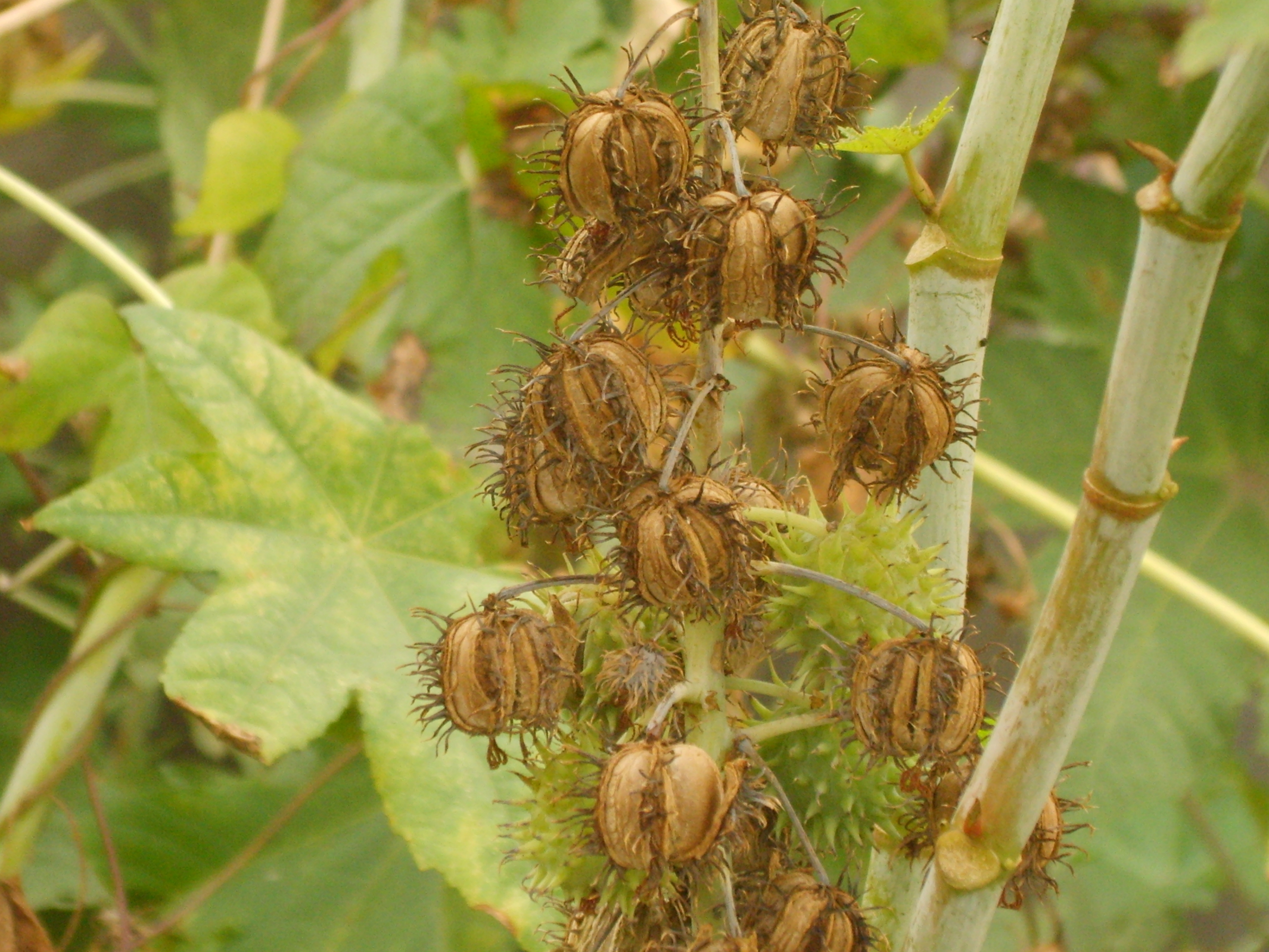 Ricinus communis